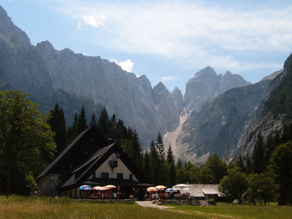 Dom v Tamarju (a.k.a. Planinski dom Tamar) mountain hut, Planica valley, Slovenia. Jalovec mountain is seen on the right side.